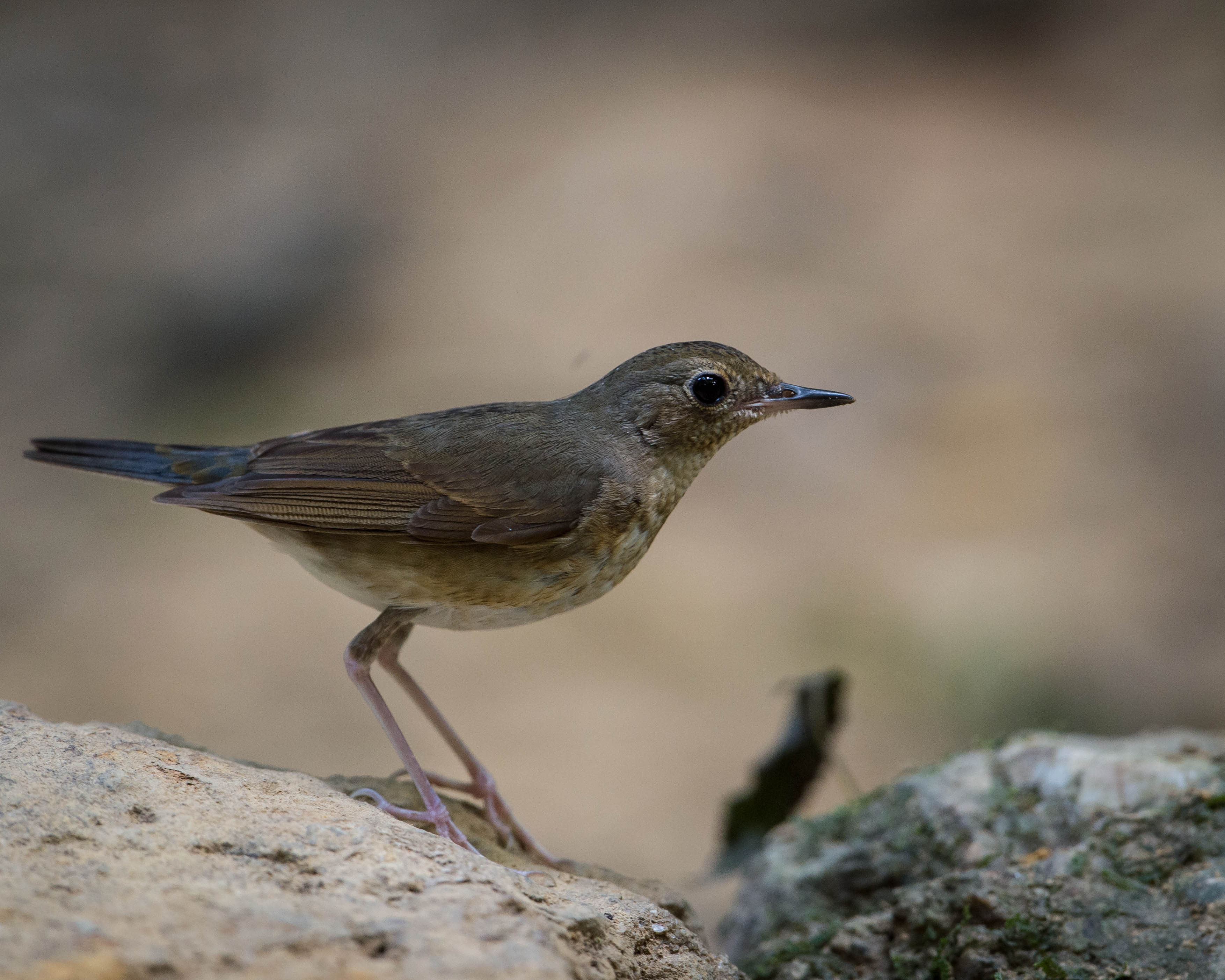 Juvenile female of Siberian Blue Robin (Luscinia cyane) at Sri Phang Nga National Park, Thailand